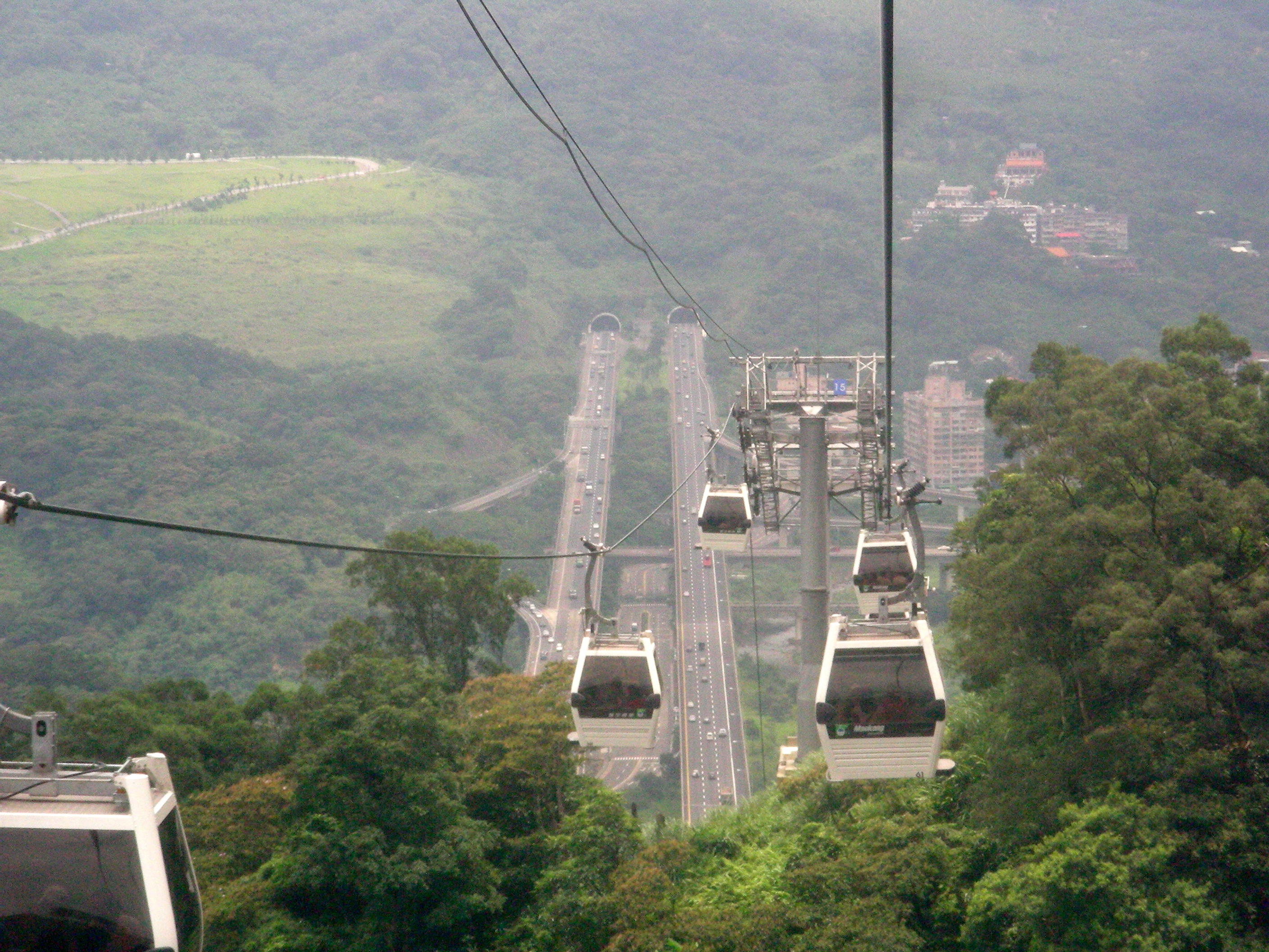 National Highway No. 3 (Taiwan) Muzha Interchange and Maokong Gondola.